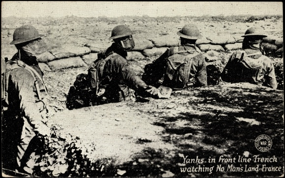 1919 postcard image of World War I U.S. troops in front-line trench, wearing French-made M2 gas masks. for information.